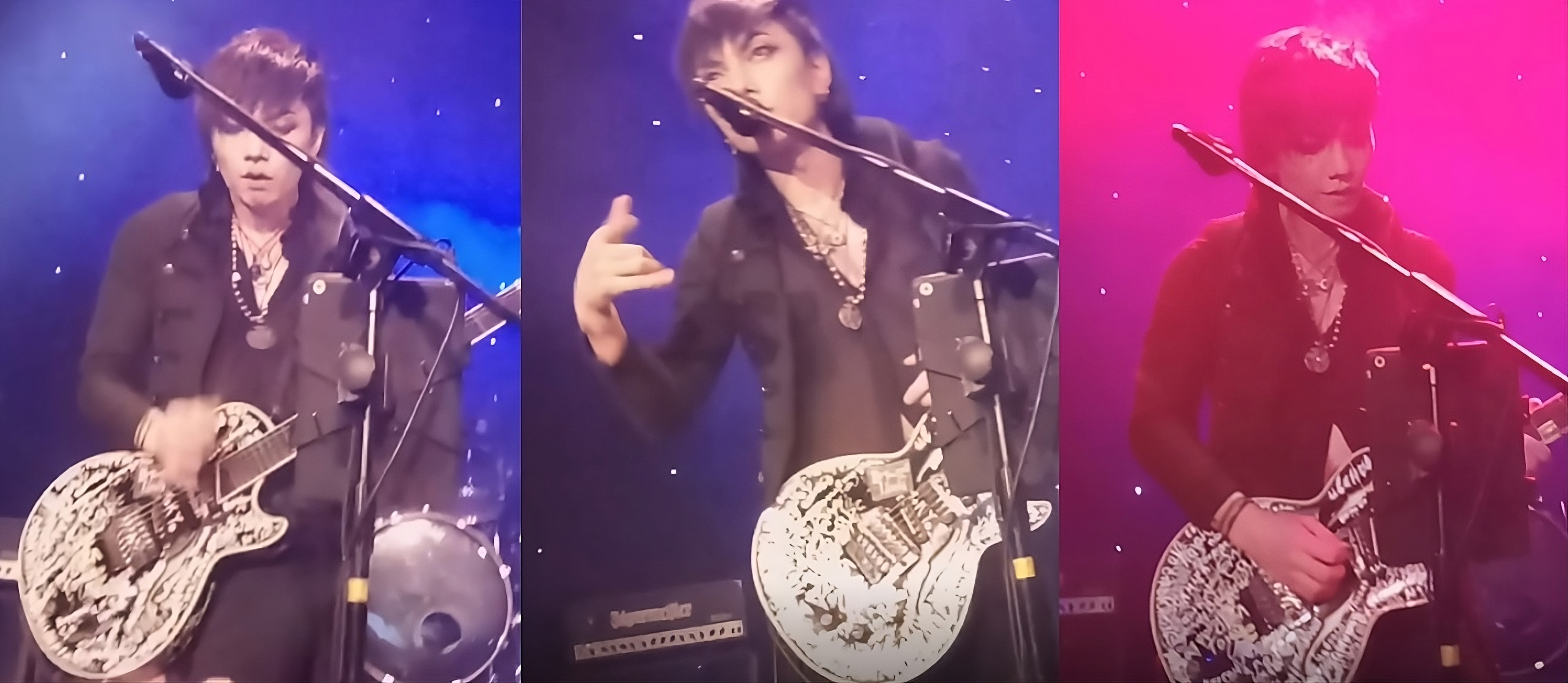 SANA's concert on MonteRay Live Stage in Kiev, 9 March (2018)